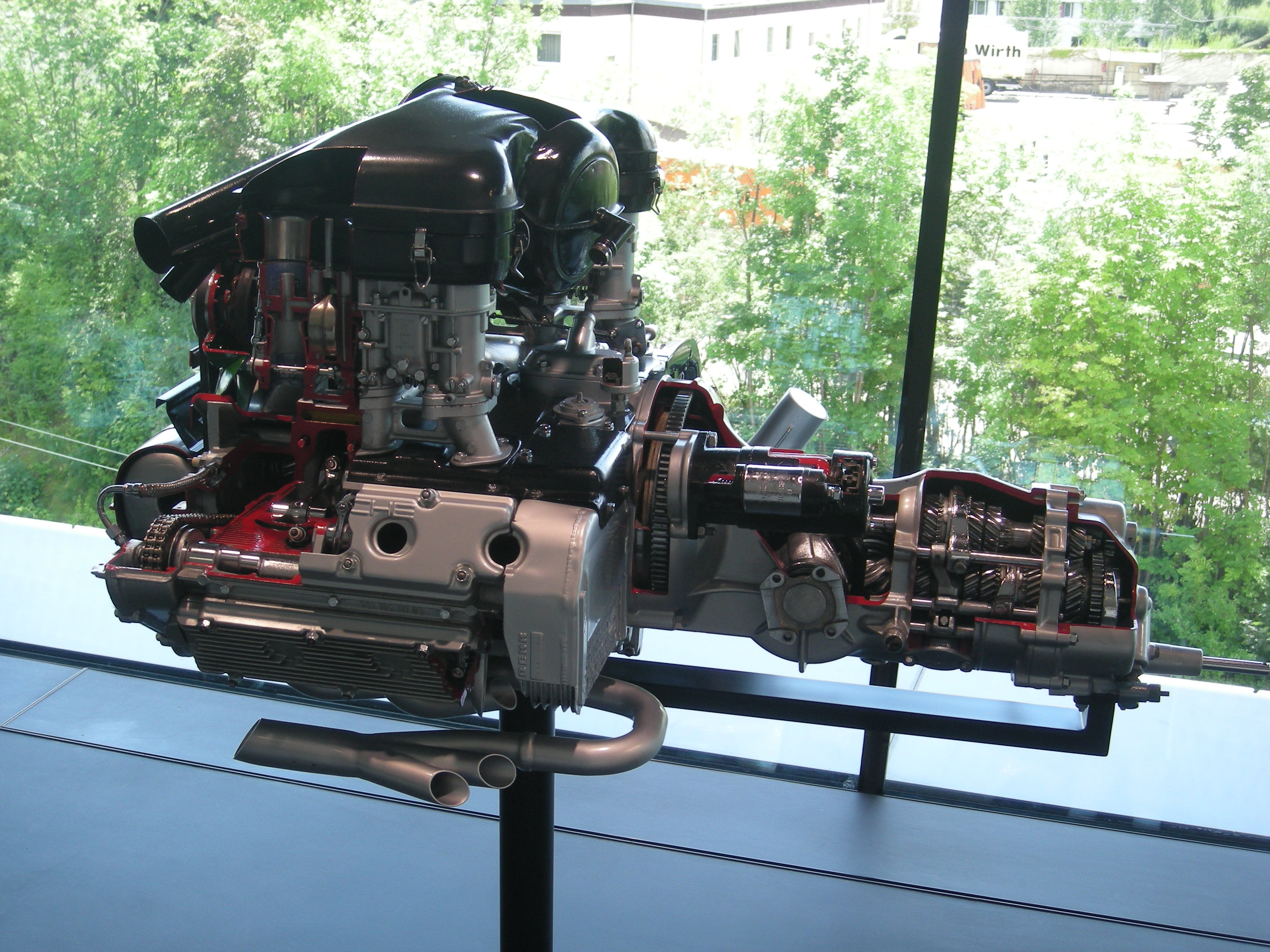 A 1963 Porsche Boxermotor Typ 901-01 cutaway inside the Porsche Museum in Stuttgart, Baden-Württemberg (Germany).